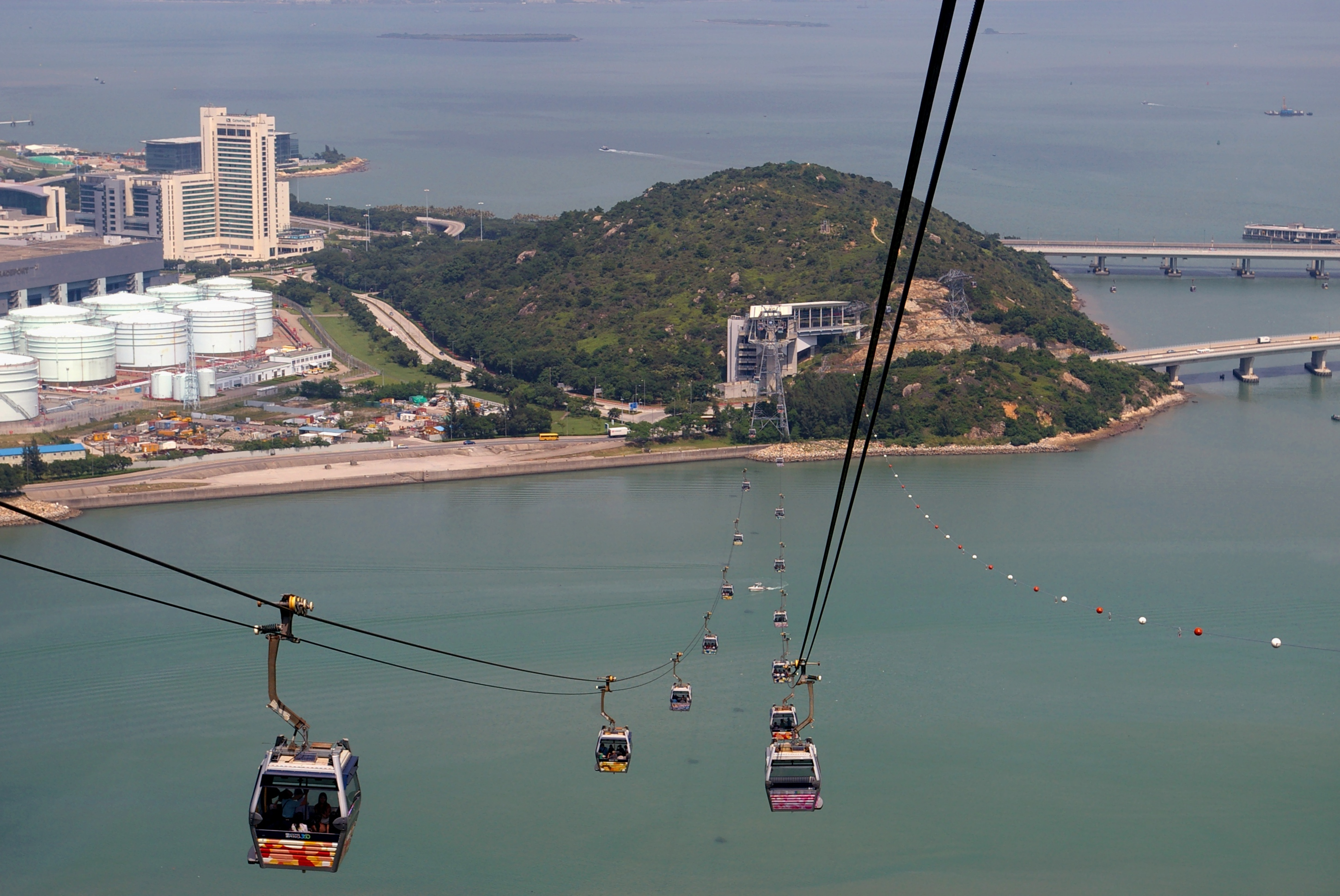 Ngong Ping 360 Skyrail in Hong Kong